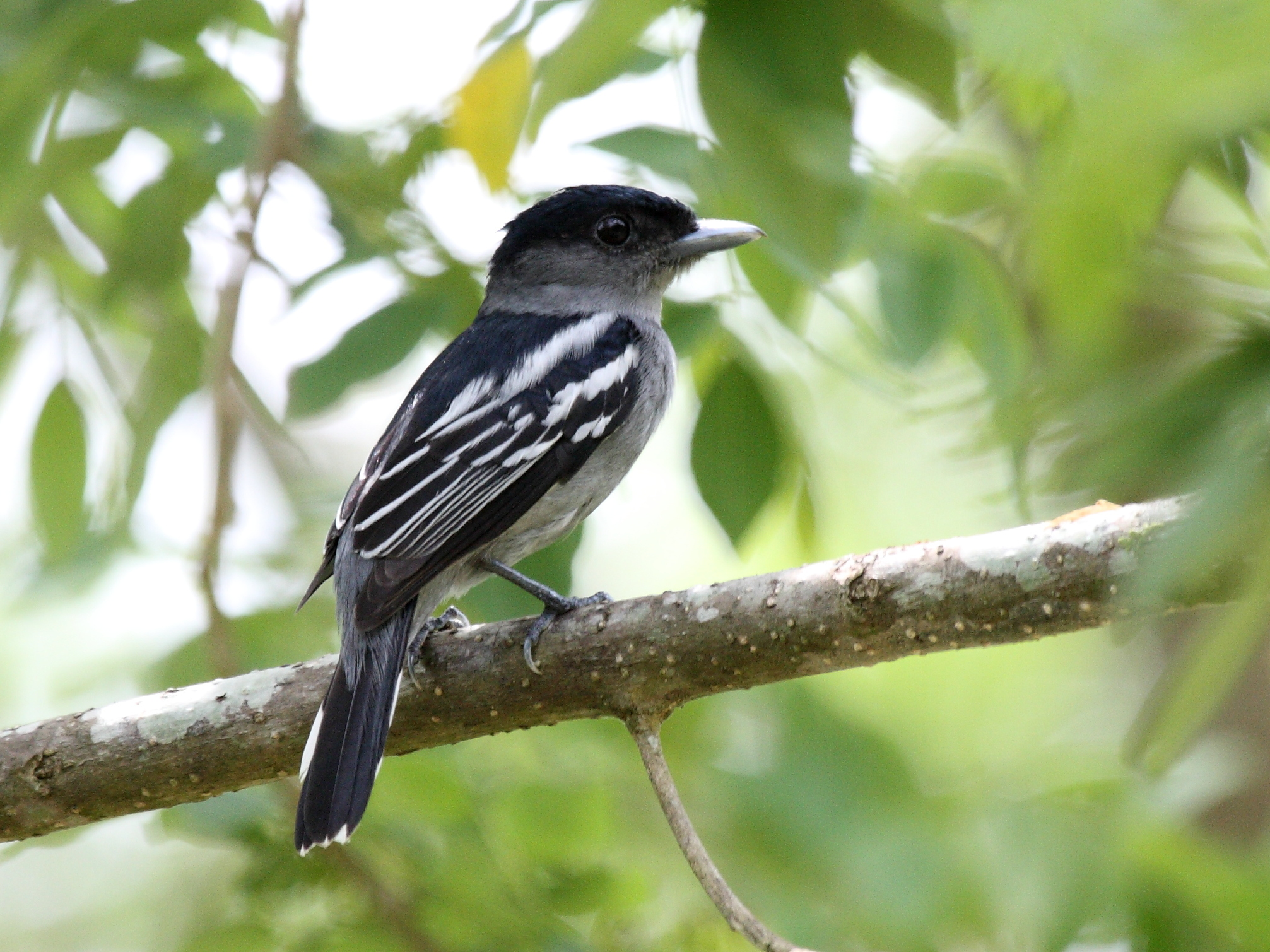 A male White-winged Becard in Panama.